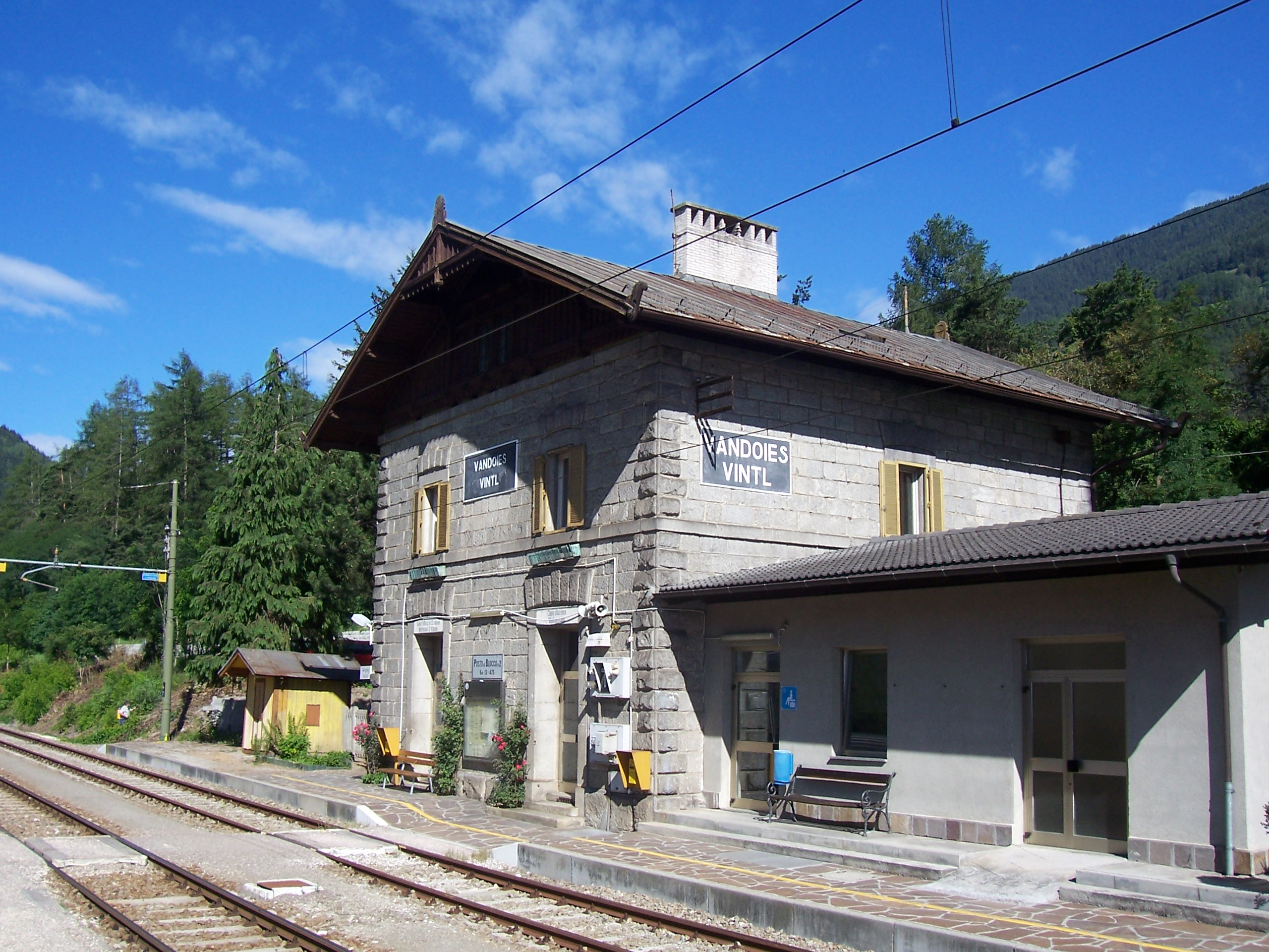 Vandoies/Vintl train station (Bolzano/Bozen province, Italy